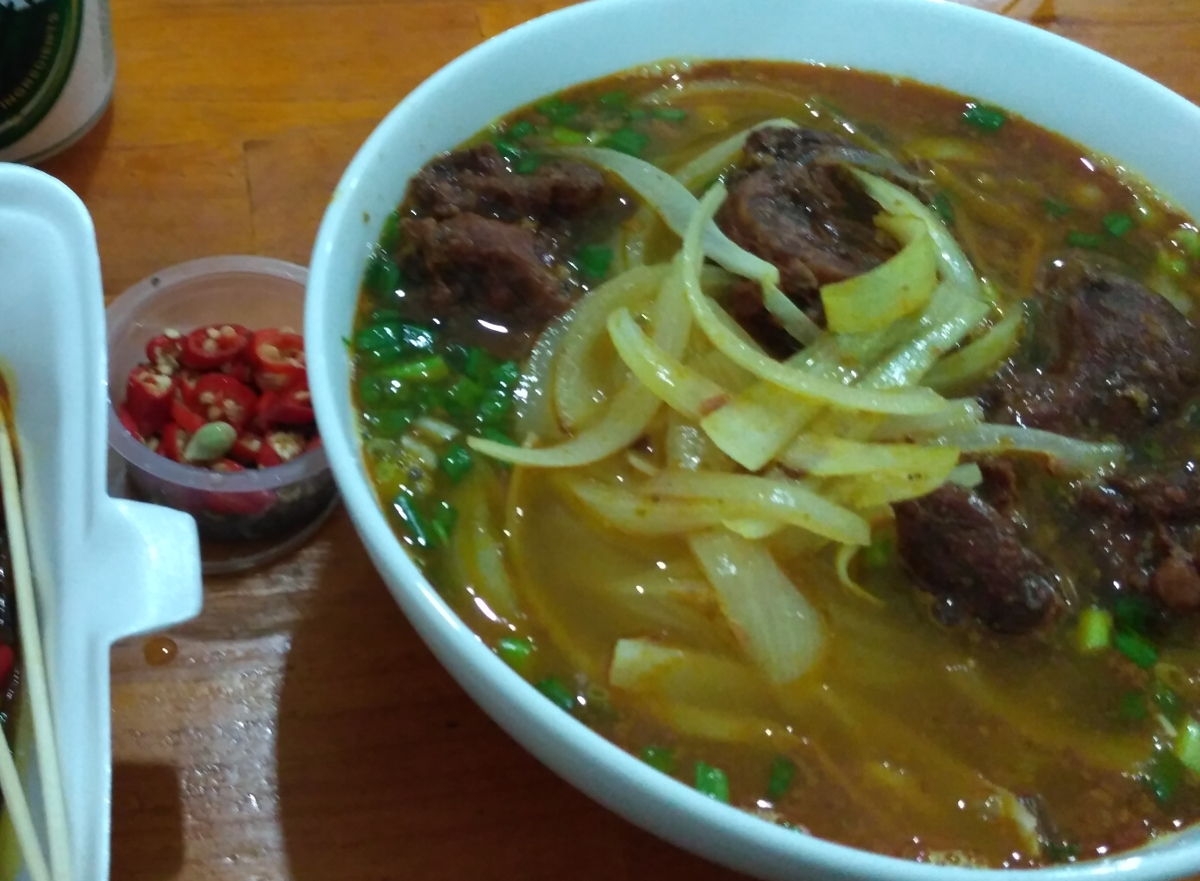 Vietnamese noodle "Hủ Tiếu". in Vung Tàu city. 2016 Sep.